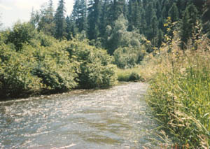 Sanpoil River in northern Washington, USA, flows through the Colville Indian Reservation and the Colville and Okanogan National Forests.